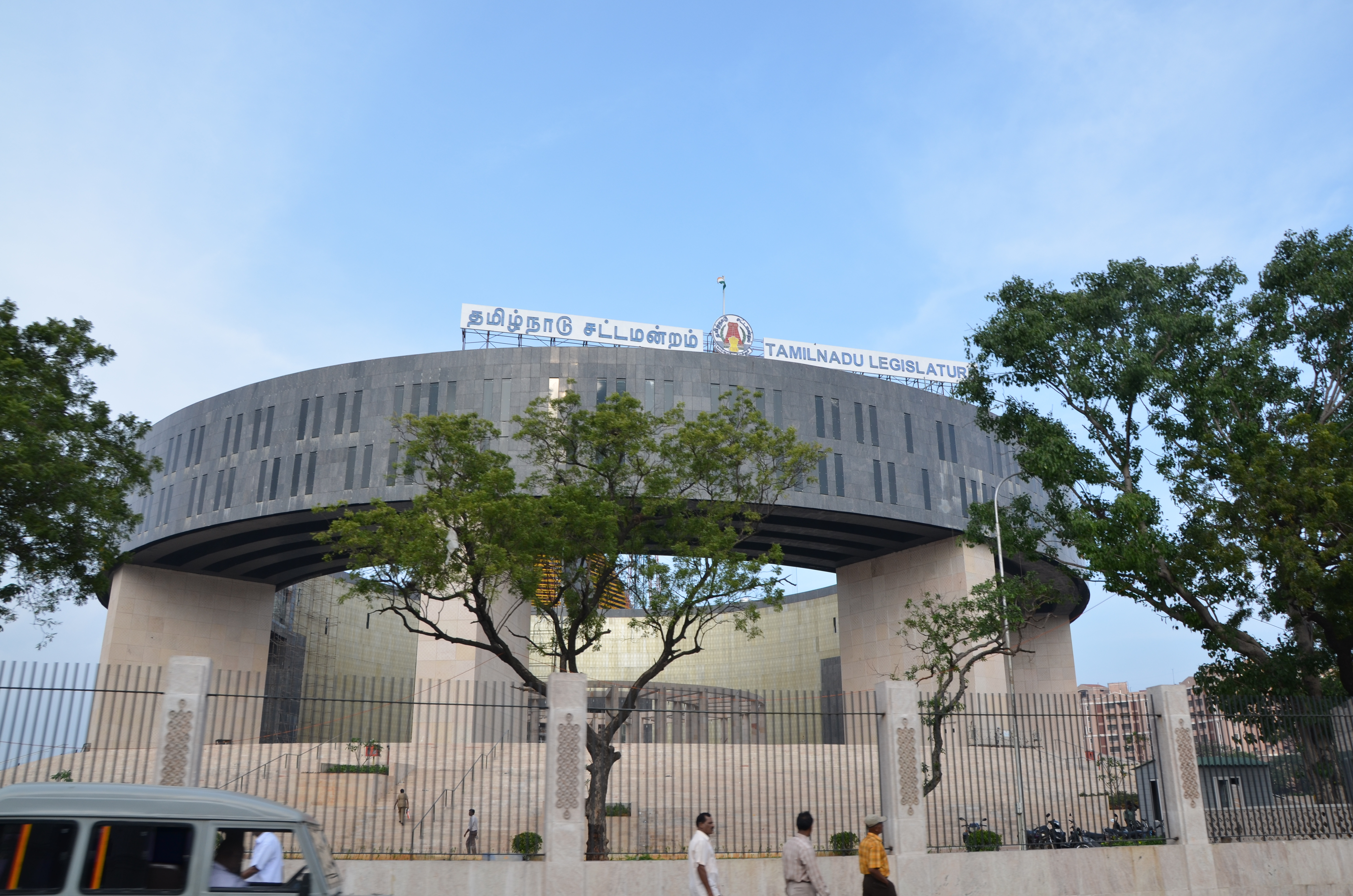 The new State Assembly Complex